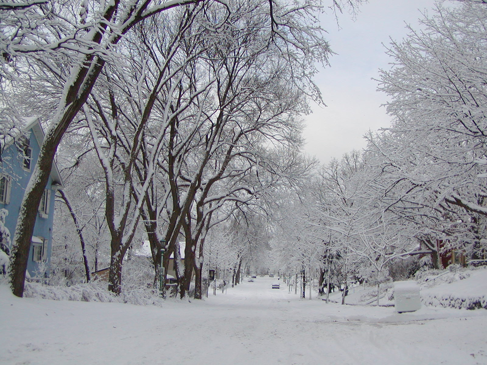 taken by William Wesen